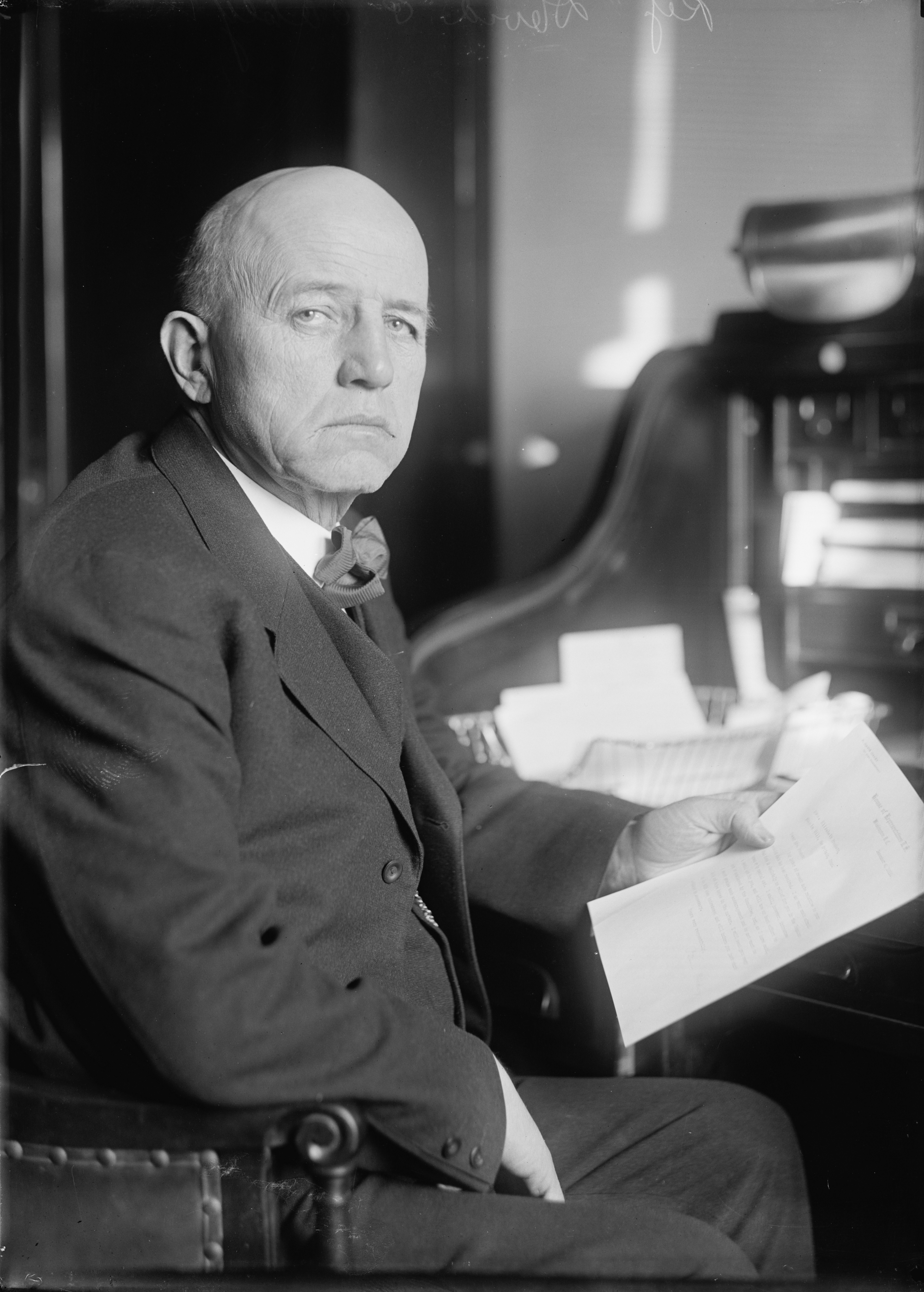 Title: OAKLEY, PETER DAVIS. REP. FROM CONNECTICUT, 1915-1917 Abstract/medium: 1 negative : glass ; 5 x 7 in. or smaller